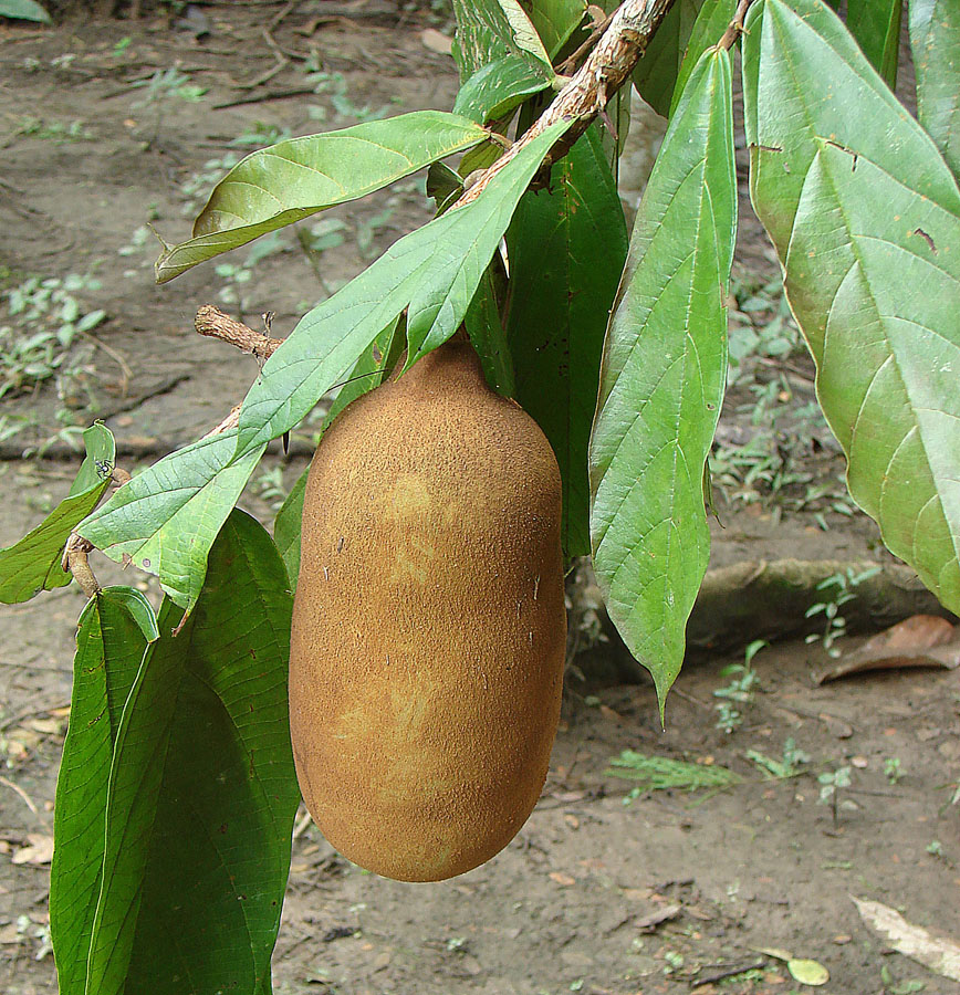 Also the source of candies and juices in the Amazon Region, under names such as Cupuacu and Copoazu. Photo from Amacayacu Park, Colombian Amazon. In context at